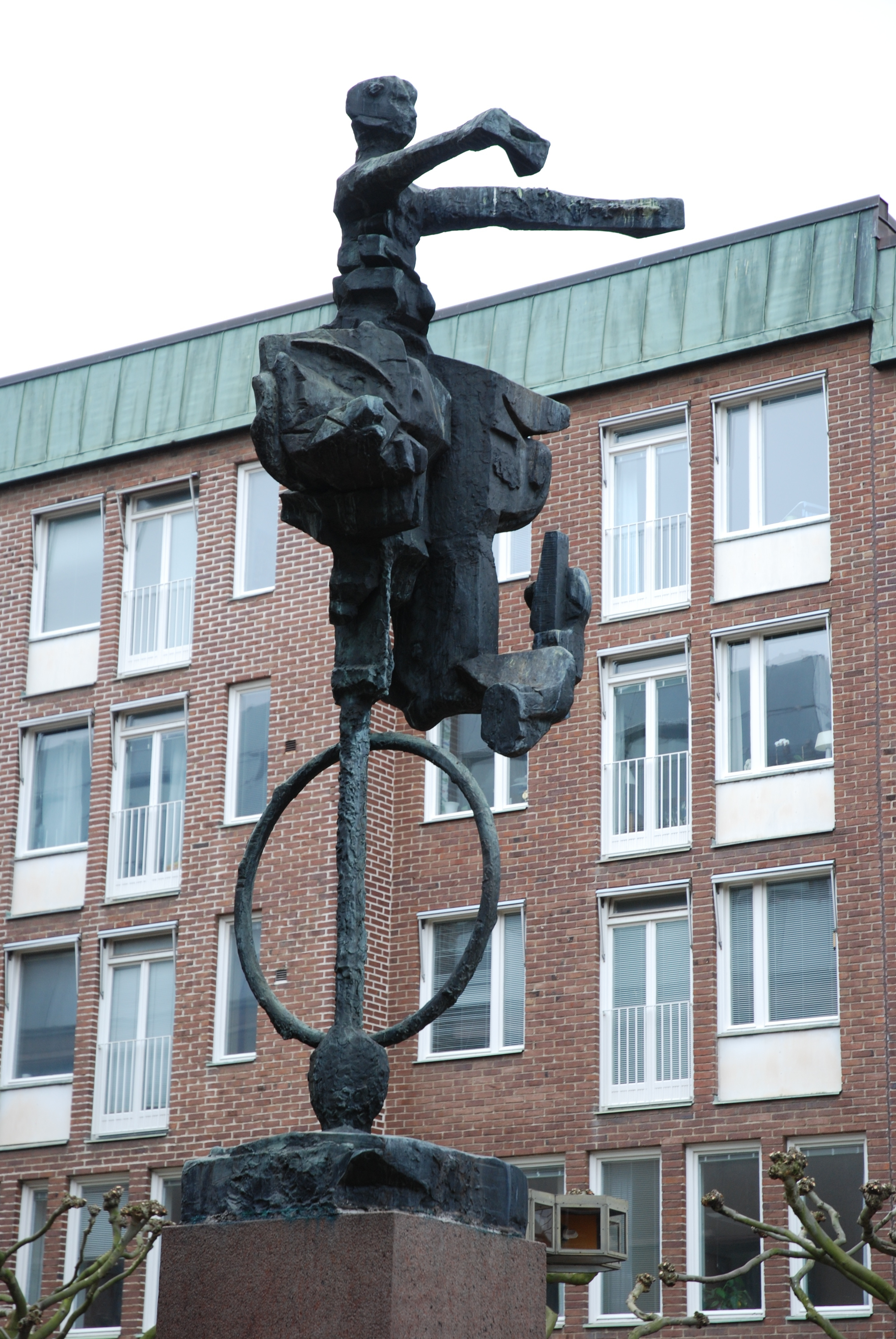 Martin Holmgren´s Monument över en gatuakrobat med hund (Monument to a Street Acrobat and His Dog), Knut den stores torg i Lund, Sweden